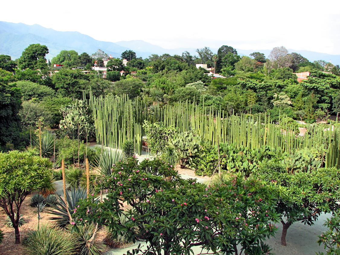 The Ethnobotanical Garden surrounding the Templo de Santo Domingo de Guzmán in Oaxaca, Mexico